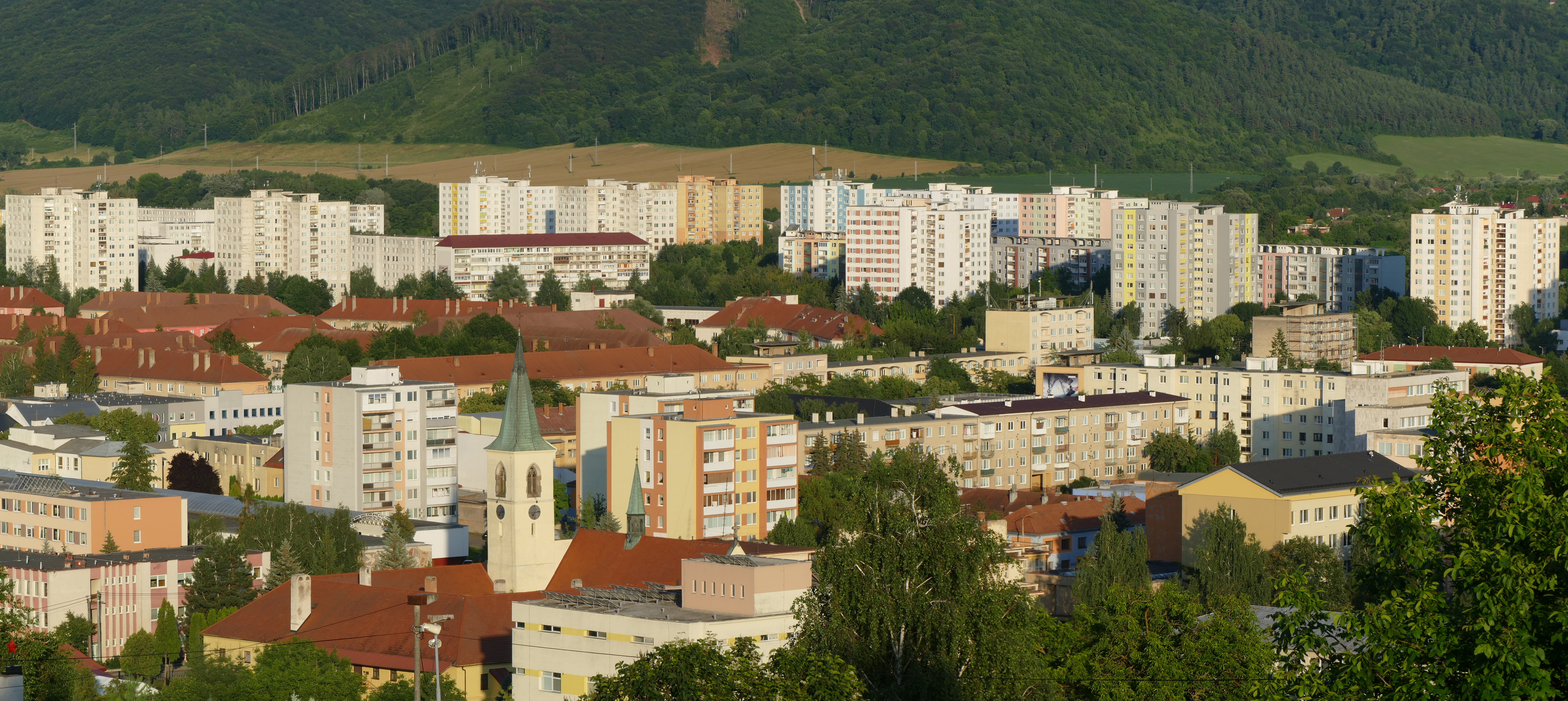 Panoramic view of the town Humenne from the northwest